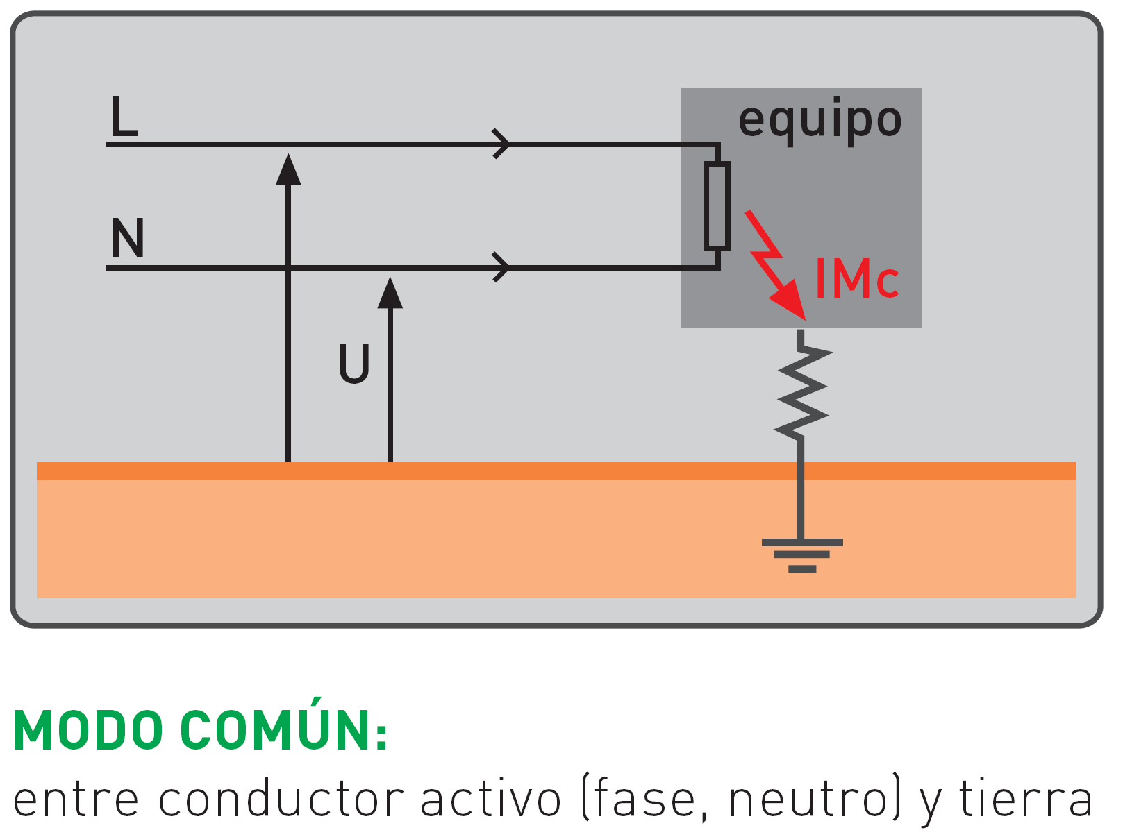 Common mode